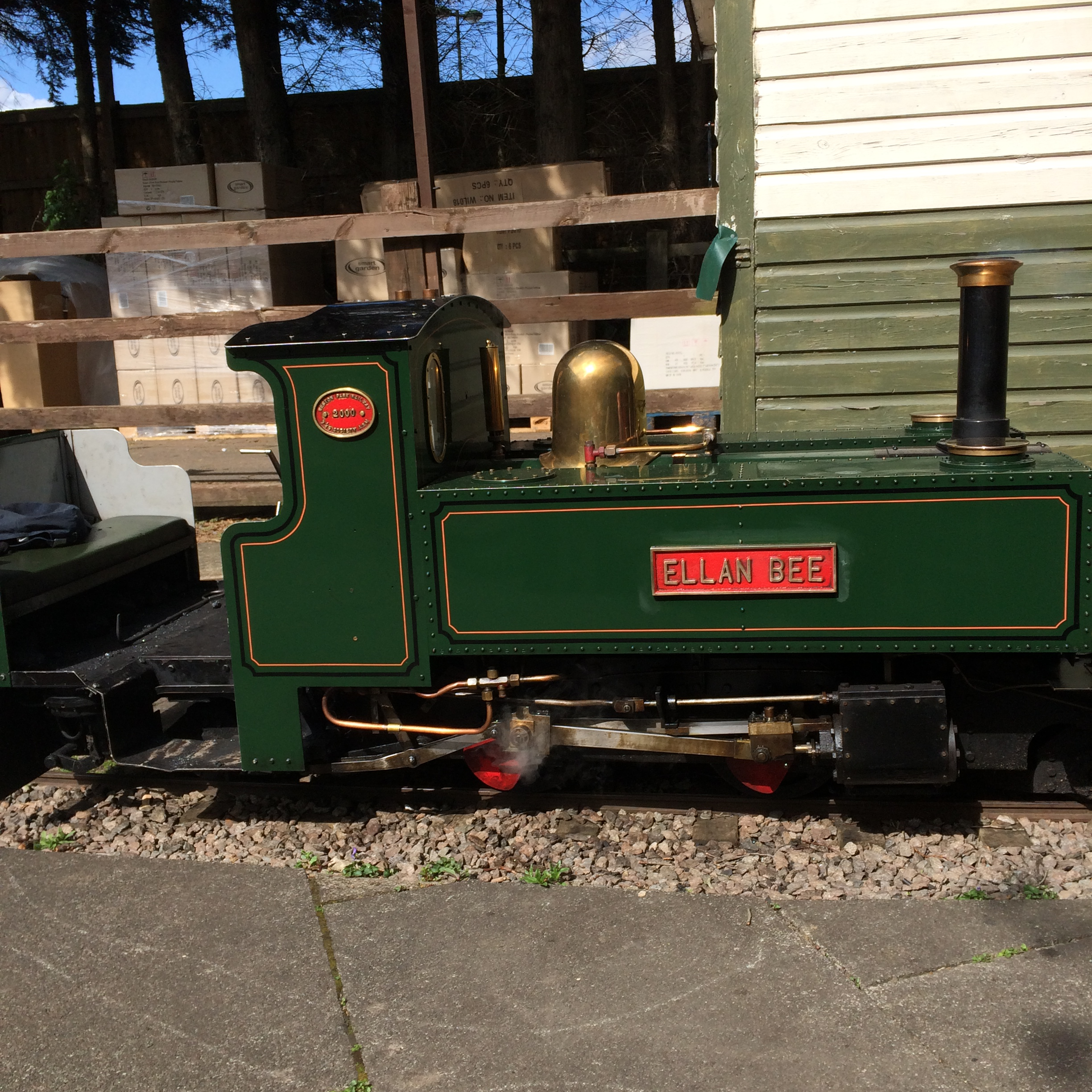 The Ellan Bee mini train in Amwell.